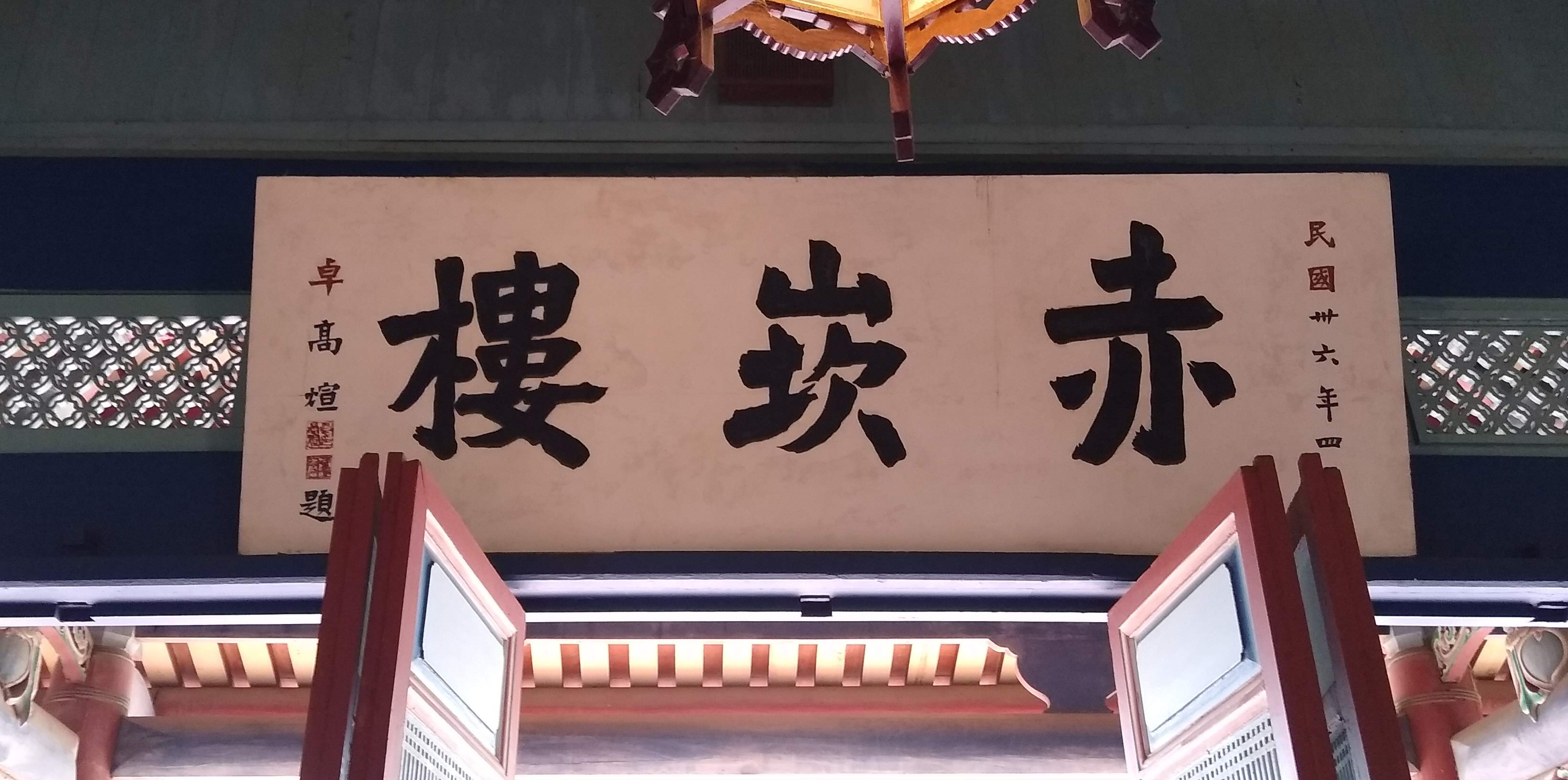 The characters "赤崁樓" inscribed at Wenchang Pavilion (文昌閣), Chihkan Tower, in Tainan.